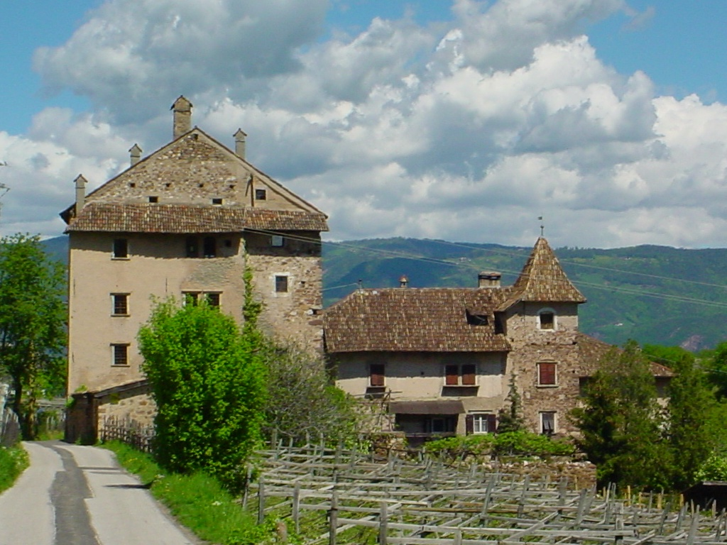 Castle Moos-Schulthaus in Eppan/Appiano (South Tyrol, Italy)